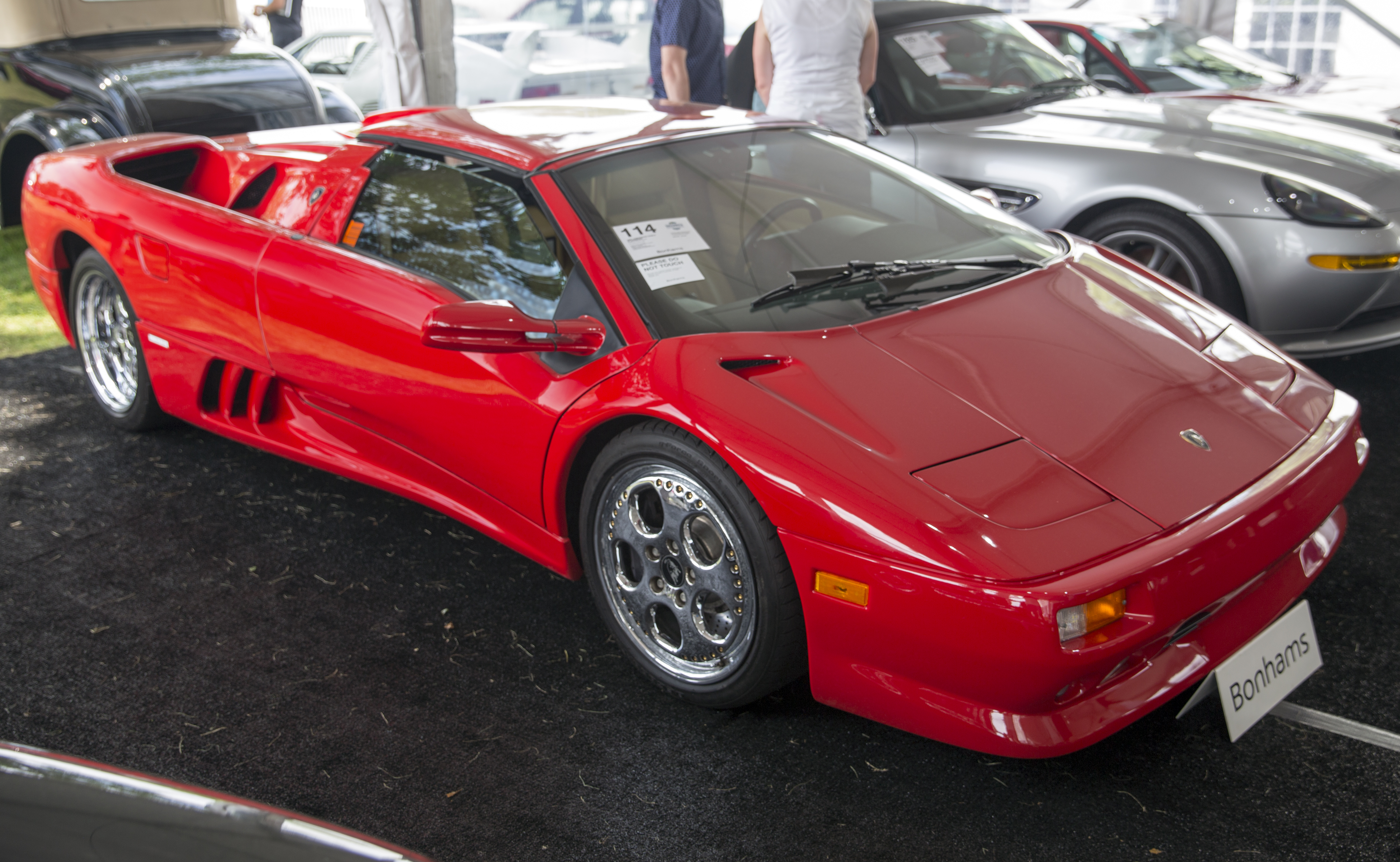 1998 Lamborghini Diablo VT Roadster, offered for sale at the Bonhams Auction at the 2018 Greenwich Concours d'Elegance. One of 200 built, this one left the Sant'Agata factory in July 1997 and has only covered about 18,000km despite having lived up and down both coasts.